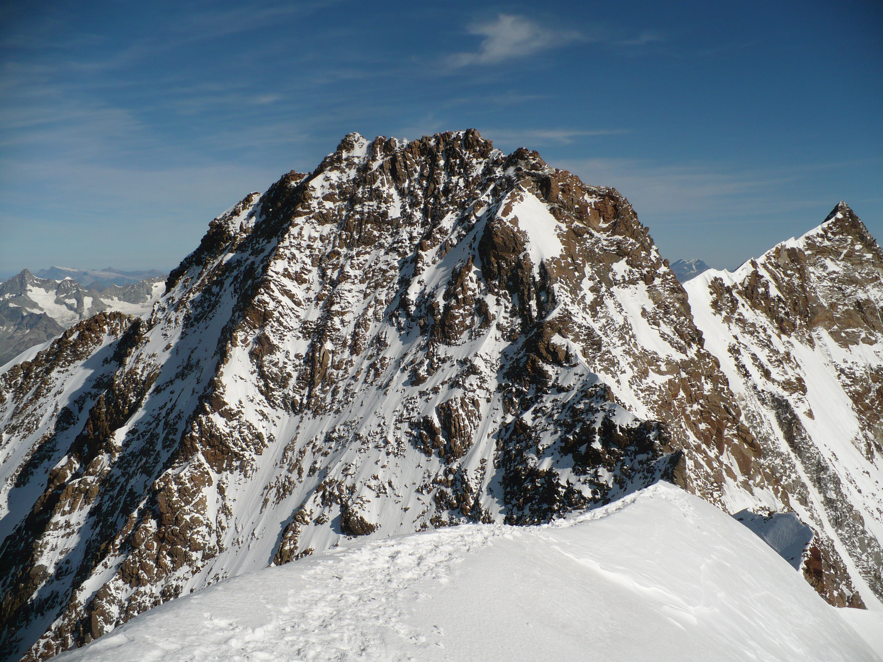 Monte Rosa Massif in the Pennine Alps: Dufourspitze from Zumsteinspitze.